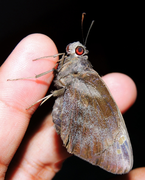 Butterfly Known For The Giant Red Eye... Photograph Taken In Mangaon, MH, India.